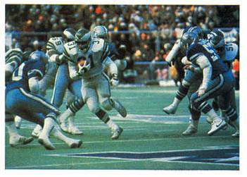 A football card from the 1986 Jeno's Pizza NFL football card stickers set of Philadelphia Eagles running back Wilbert Montgomery rushing the ball against the Dallas Cowboys in the 1980 NFC Championship Game on January 11, 1981. The card is numbered #5 in the set. The back of the card reads: EAGLES WIN THE CHAMPIONSHIP Philadelphia Eagles running back Wilbert Montgomery breaks into the open and runs 42 yards through the Dallas defense for a touchdown, as the Eagles beat the Cowboys 20-7 in their 1980 NFC Championship Game. Montgomery gained 194 yards, while the Eagles' defense held Dallas to just 206 and set up 10 points with two fumble recoveries.